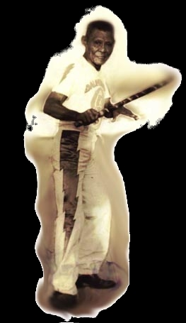 Venancio Bacon